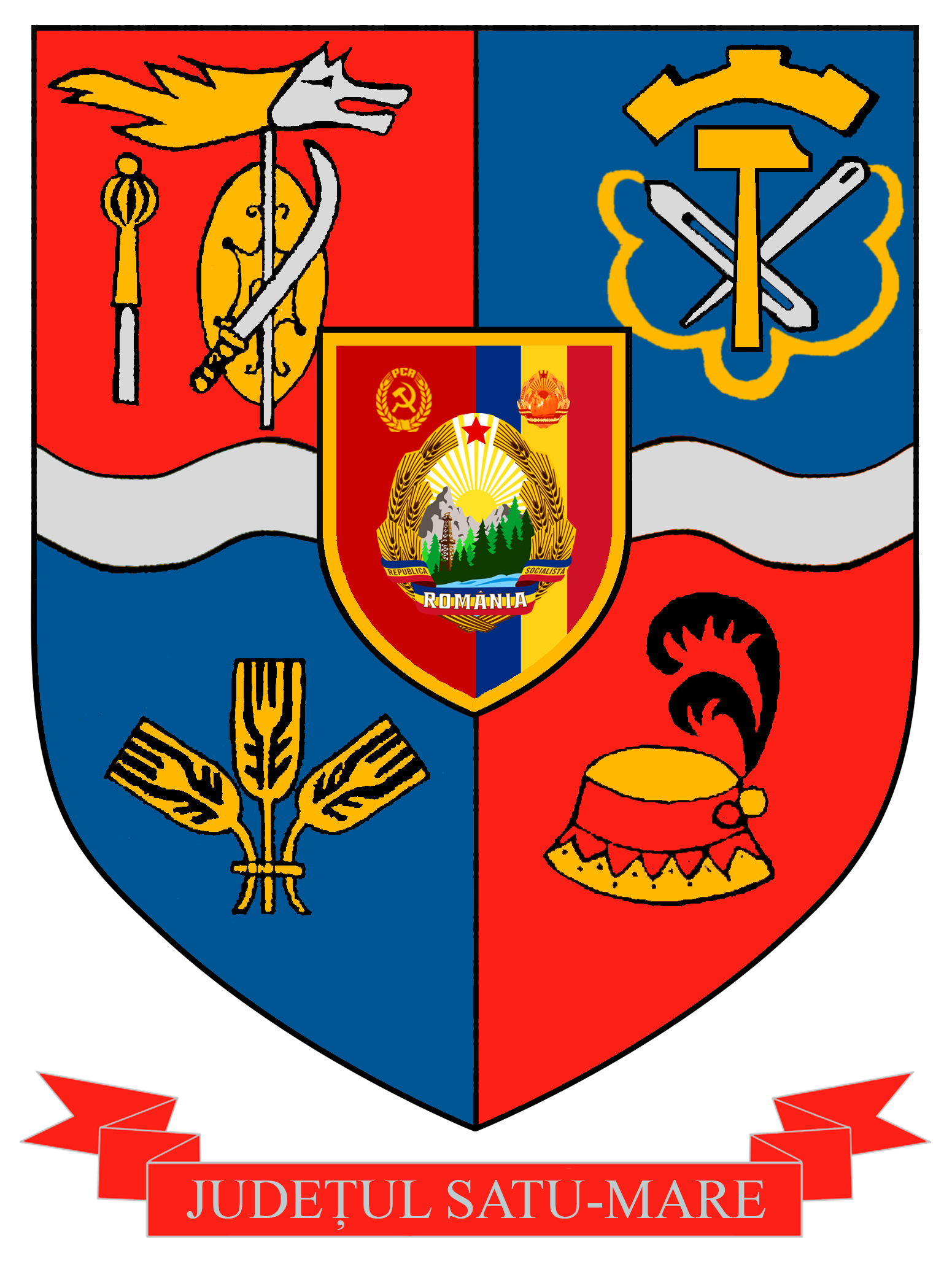 Communist coat of arms of Satu-Mare County, Socialist Republic of Romania.